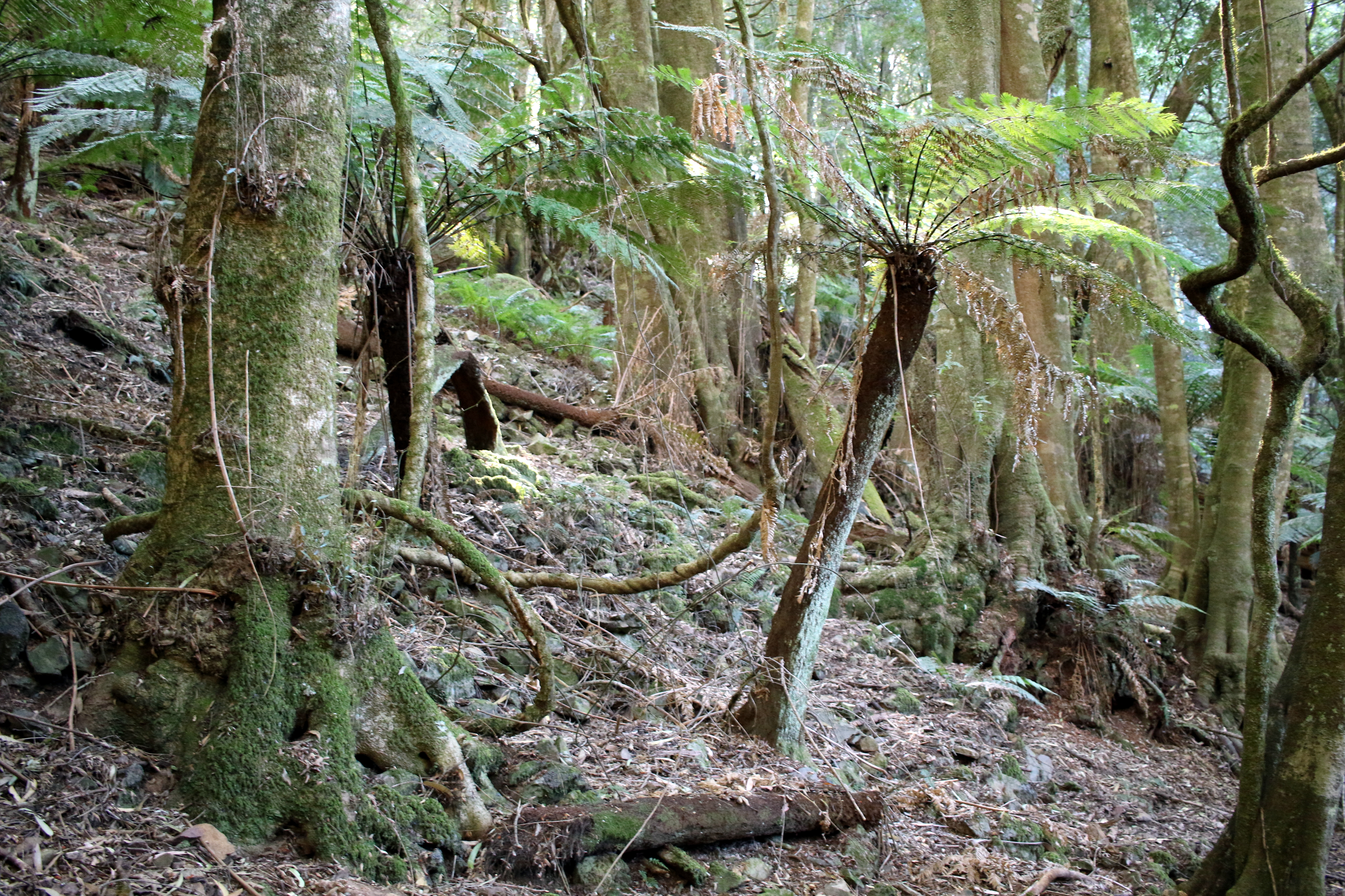 Southern Sassafras (Atherosperma moschatum sub-species integrifolia) around 30 metres tall, (left). Eucryphia Forest Preserve, Monga National Park, NSW, Australia